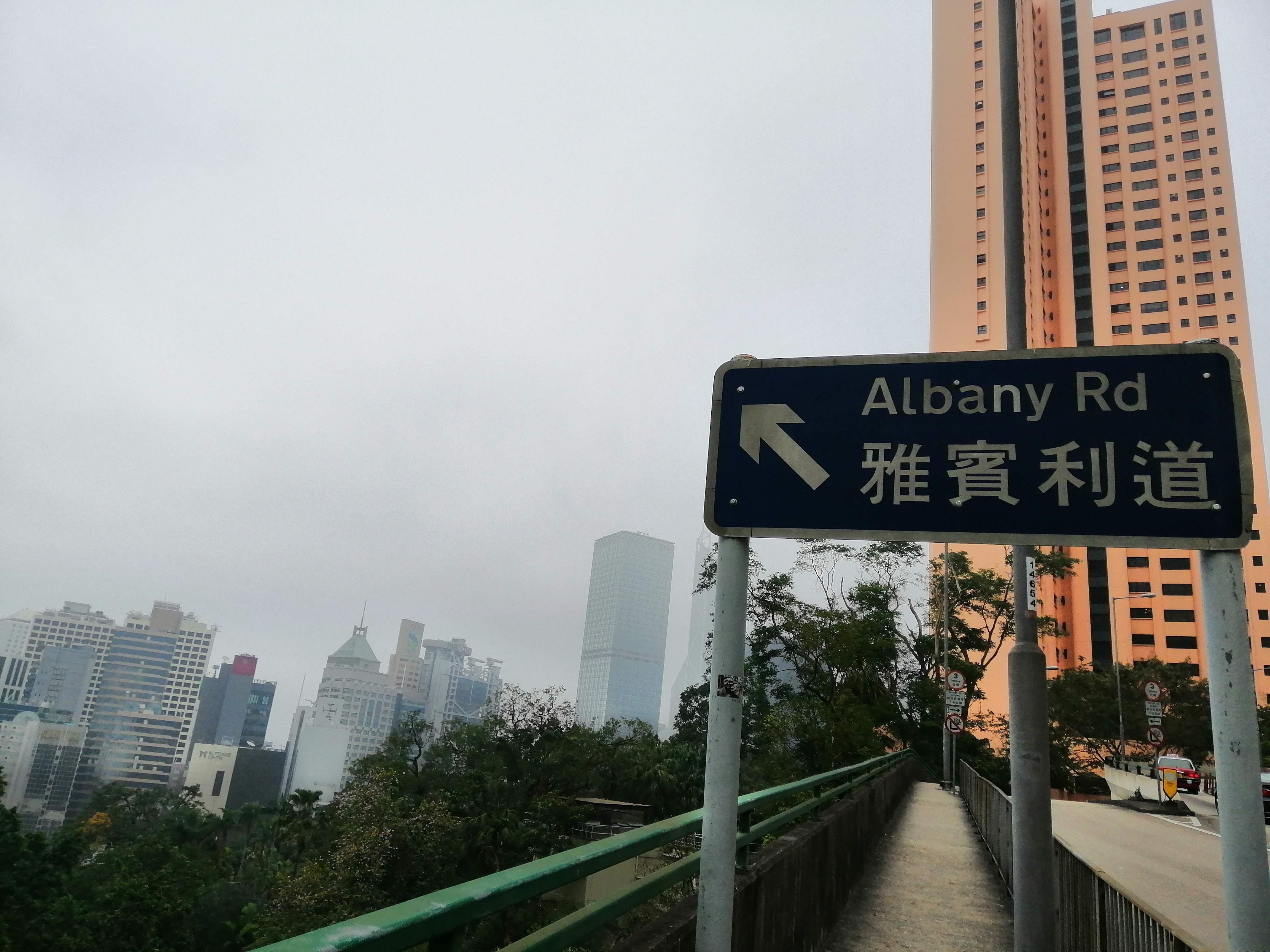 The road sign on Robinson Road which indicates the direction to Albany Road